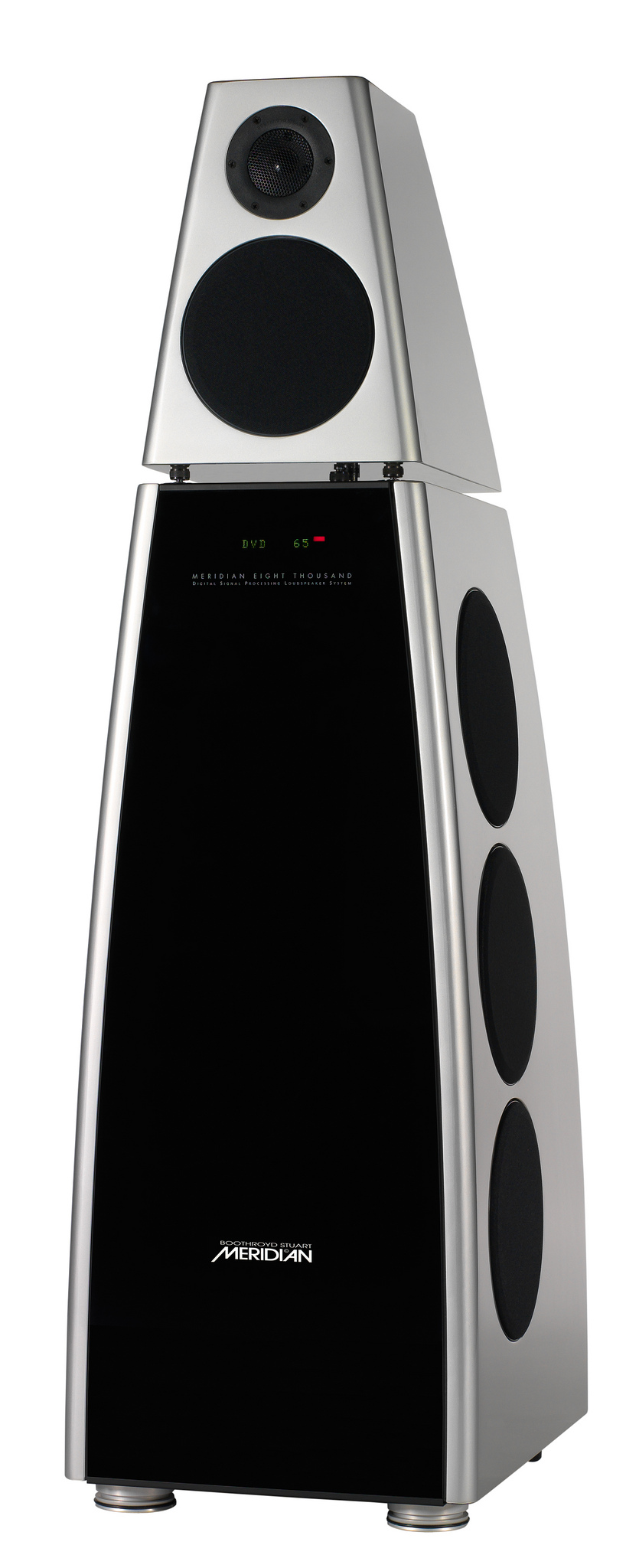 Meridian Audio's flagship DSP8000 loudspeaker.